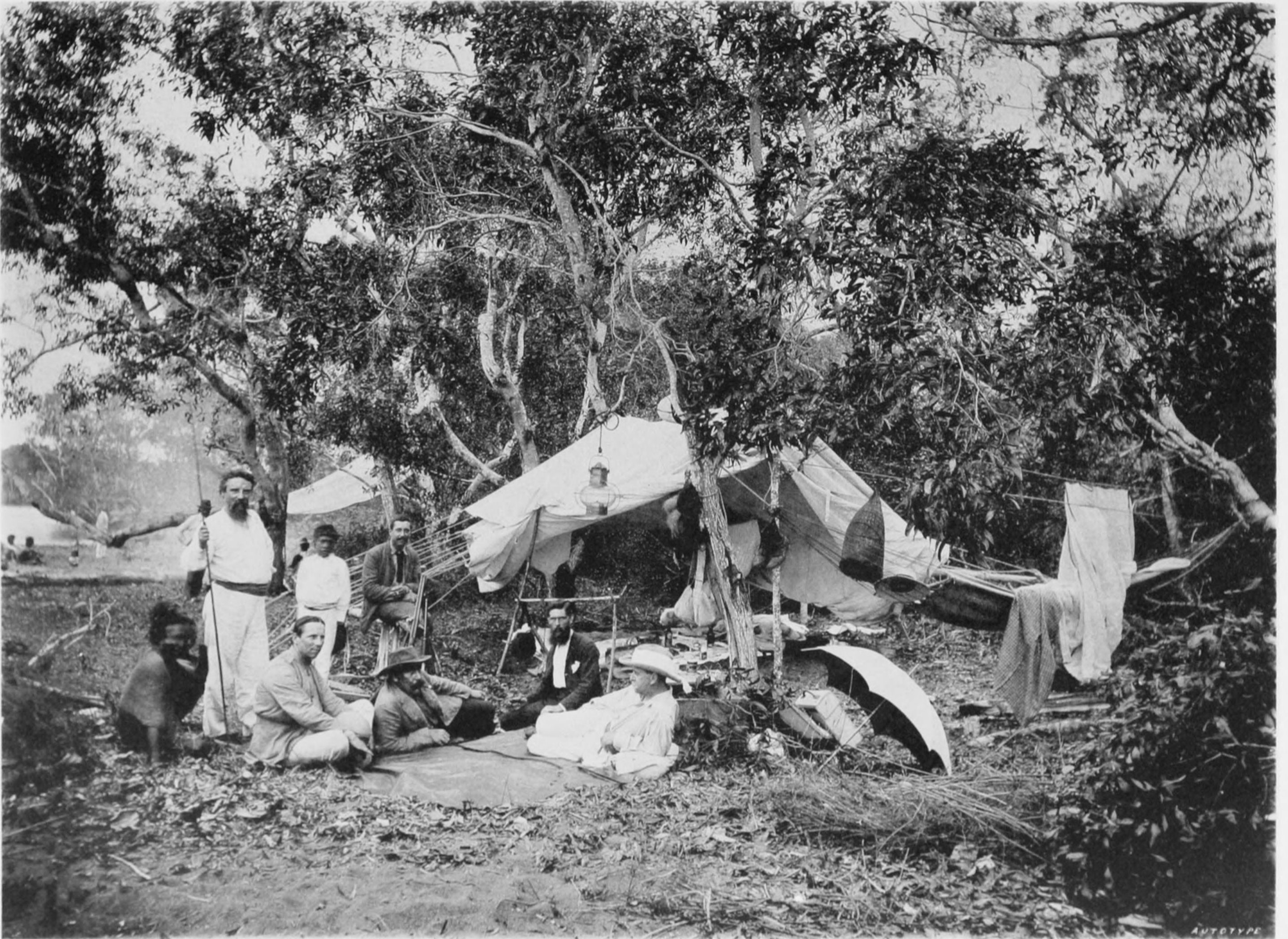 Sir Peter Scratchley's Camp, near mouth of Aroa River, Redscar Bay.